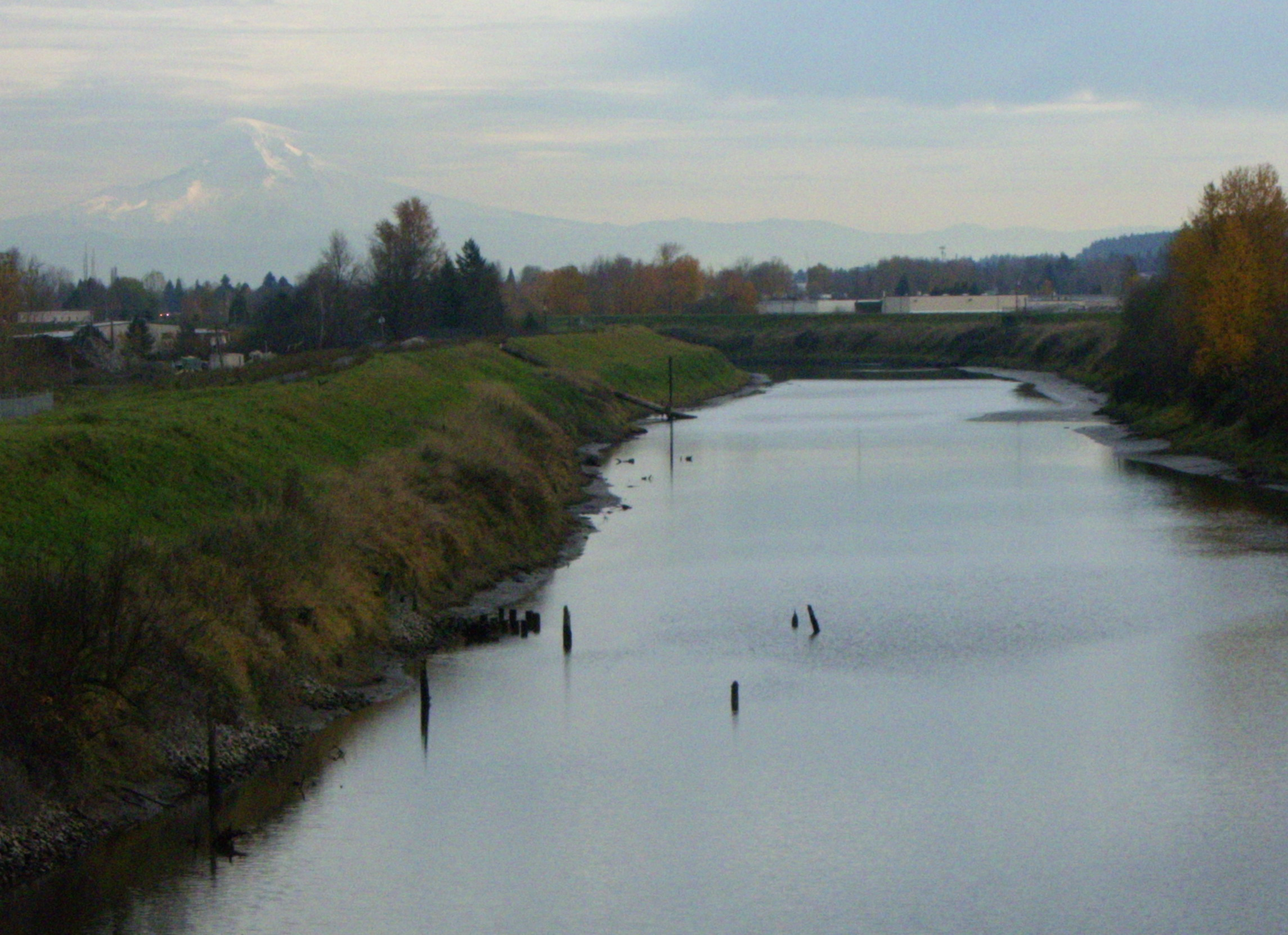 Columbia Slough and Mount Hood seen from US Hwy 99 in N Portland, Oregon. The levee on the left is at the south edge of the former city of Vanport. Numerous pilings are evidence of once intense industrial and marine use of the slough.